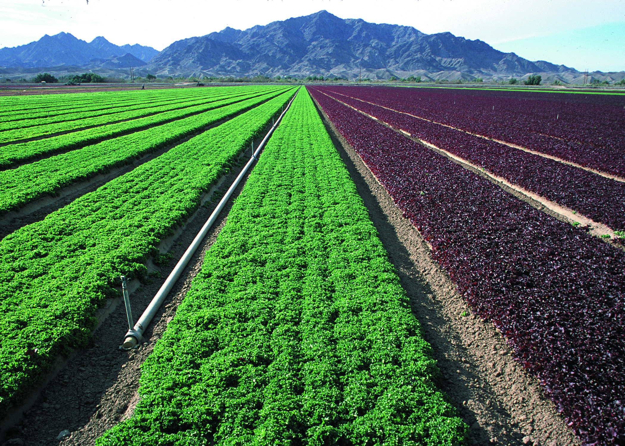 Rows of leaf lettuce irrigated by handline sprinklers, Yuma, Az.